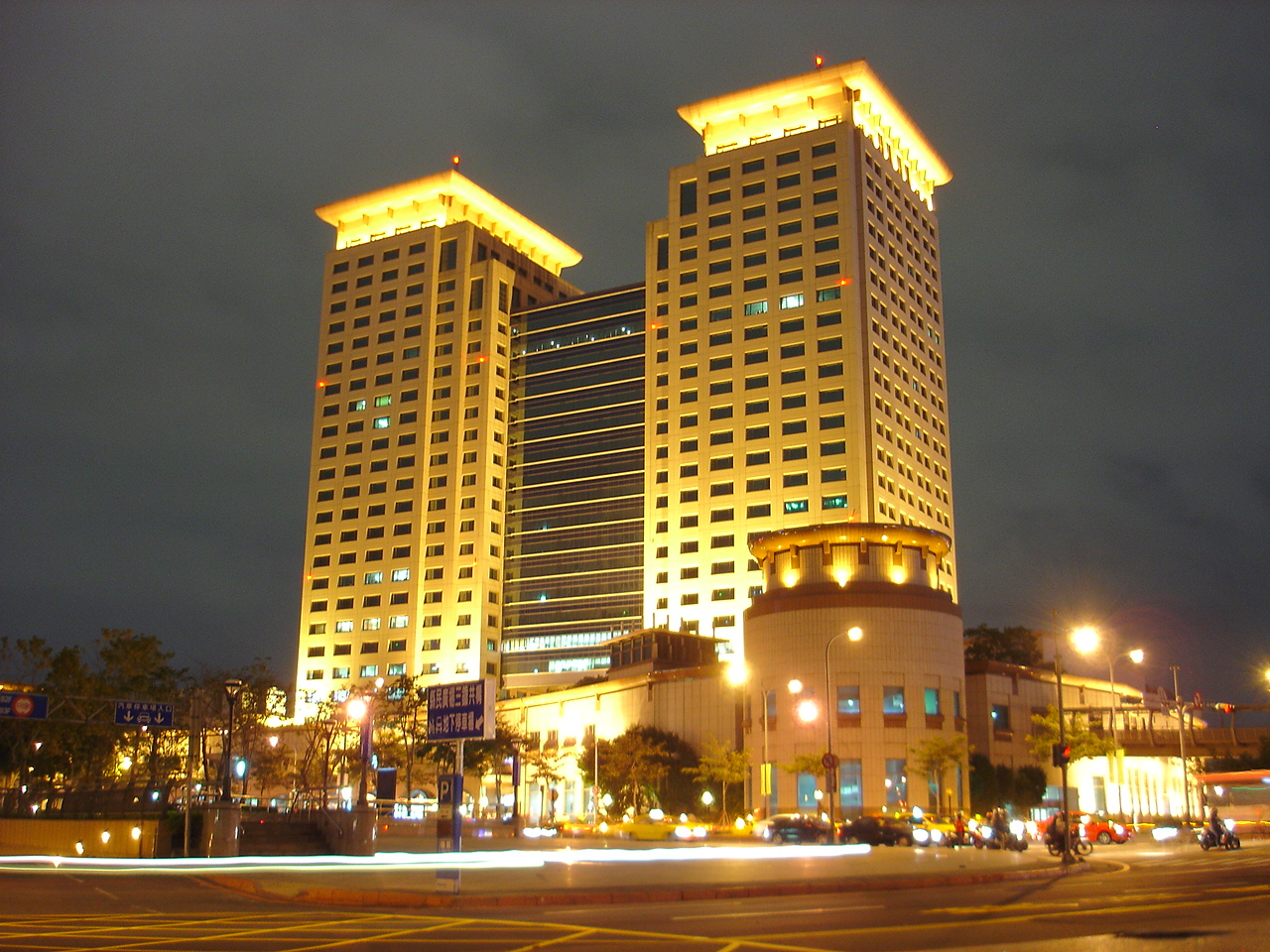 en: Banciao Station in Taipei County, Taiwan zh: 台灣台北縣板橋市的板橋車站